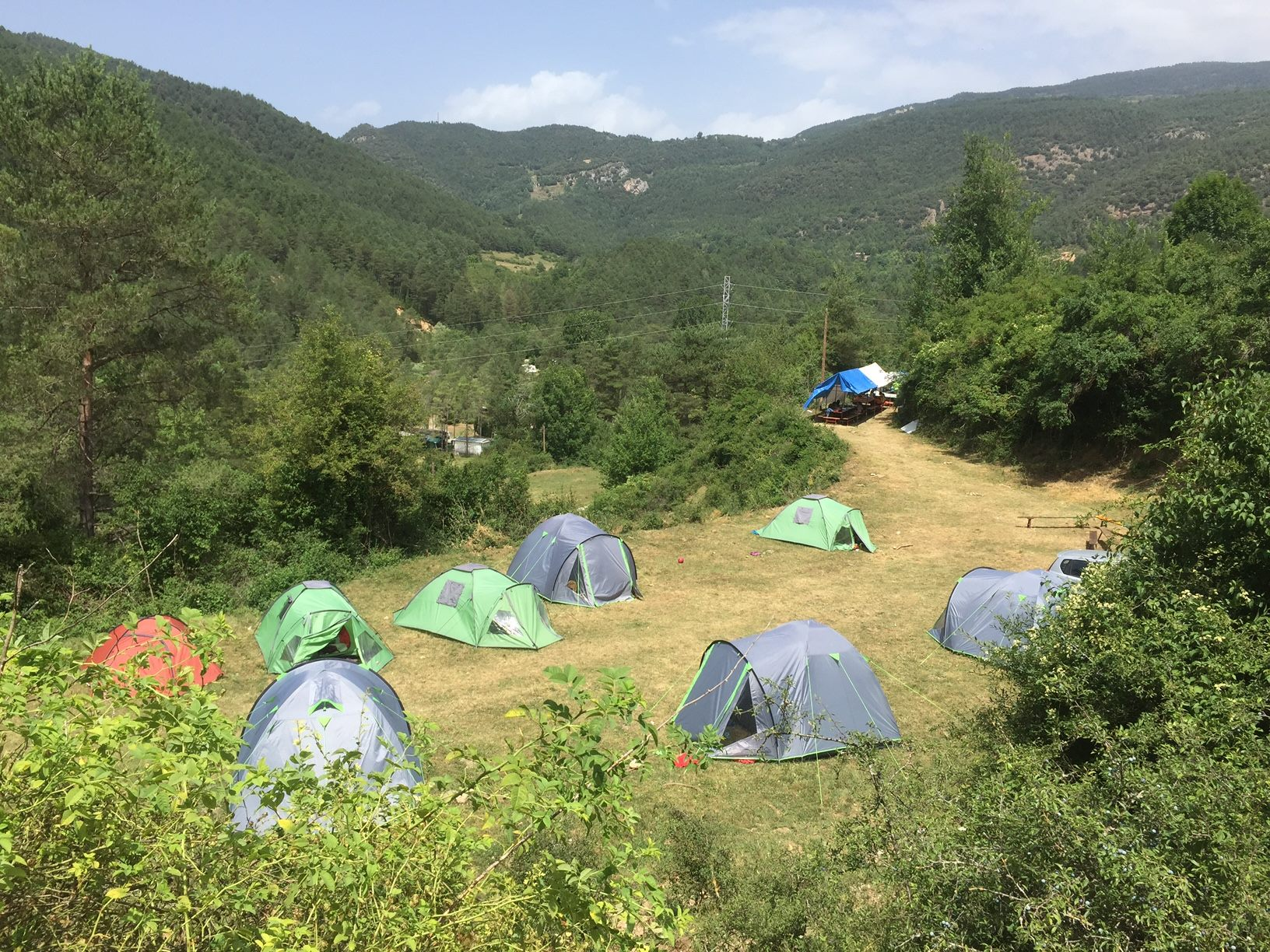 Esplai summer camping